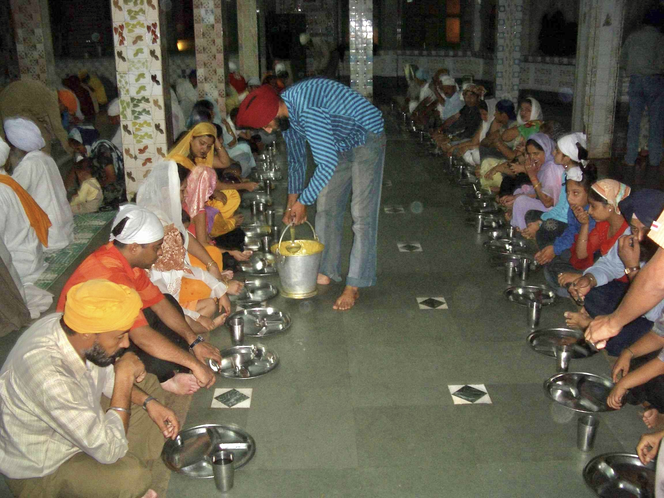 I took this photo on a trip to the Sikh gurdwara at Manikaran, H.P. in 2004